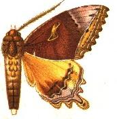 PLATE CCXXVI.